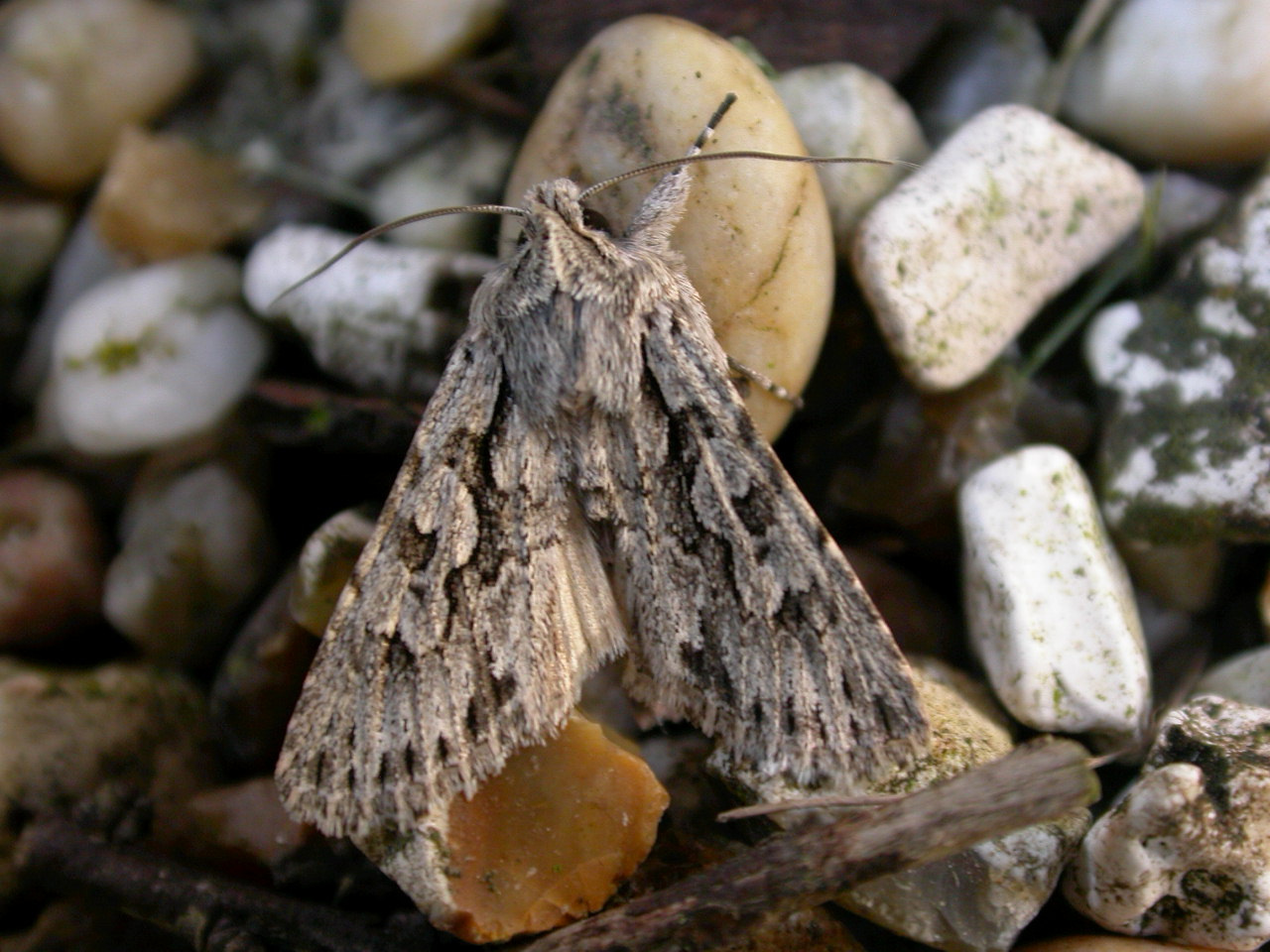 Xylocampa areola, to MV light, Walton-on-the-Naze, England, 31 March 2004.